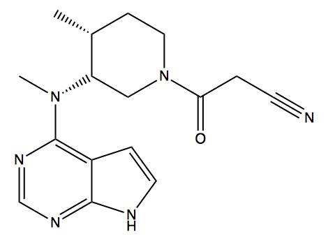 Chemical structure of tofacitinib.